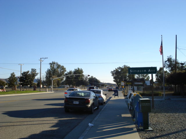 Winchester, California - December 2007